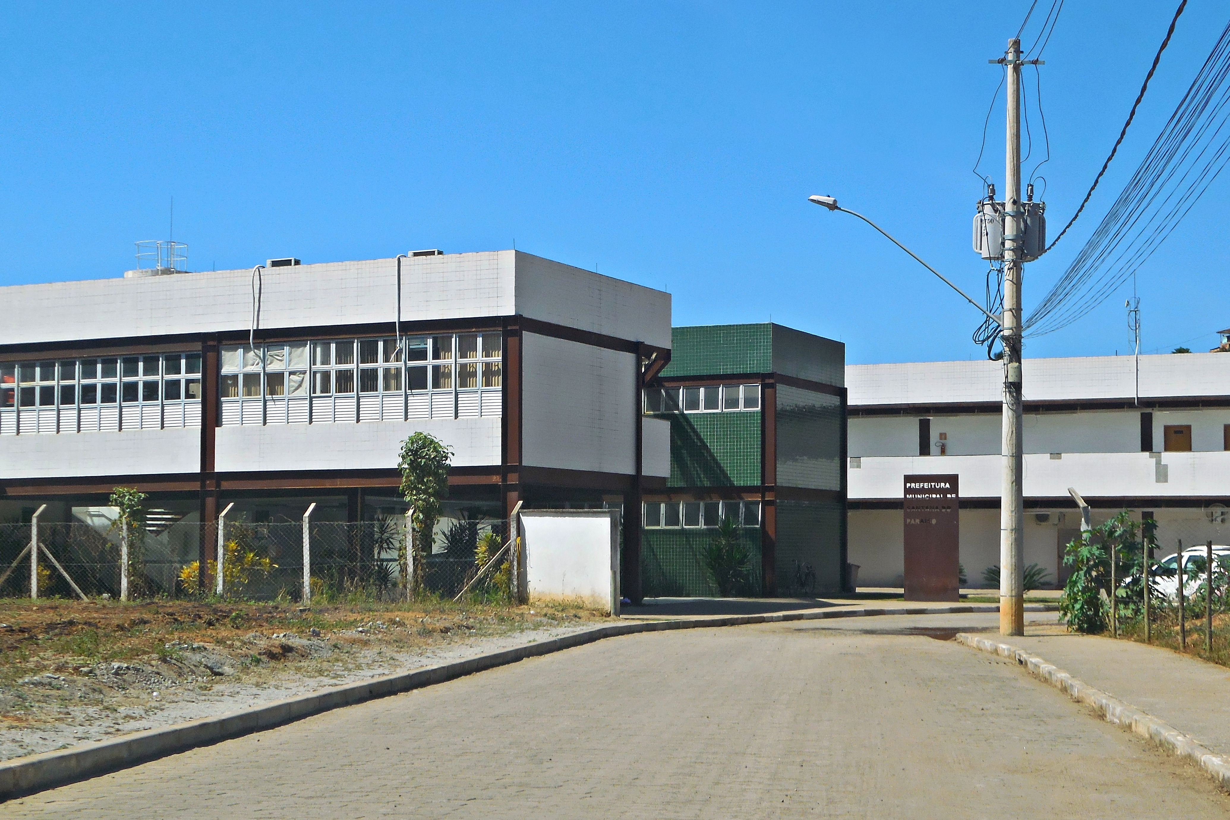 Town hall of Santana do Paraíso, Minas Gerais, Brazil.